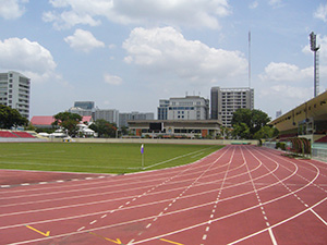 Thephasadin Stadium